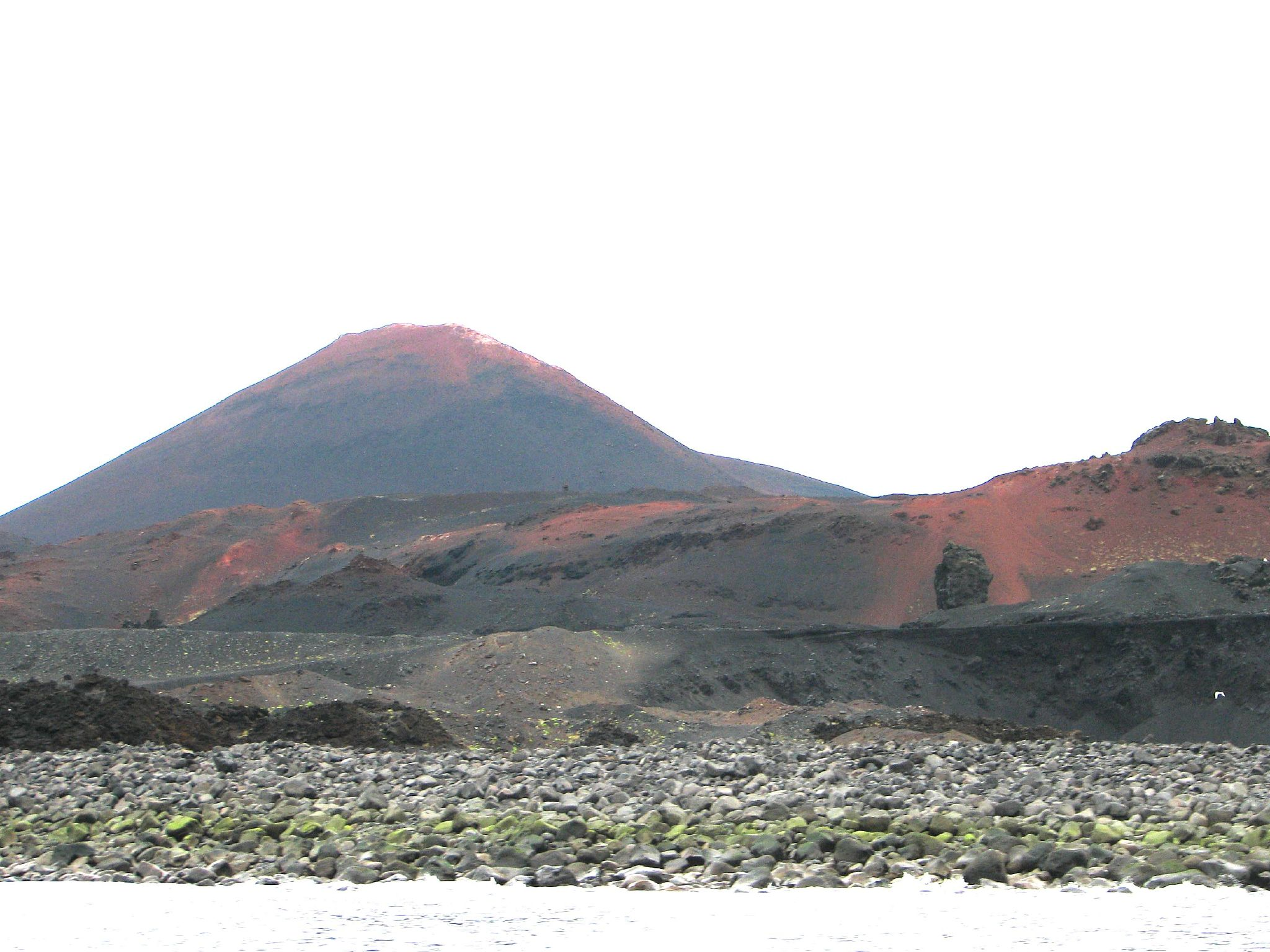 The volcanic mountain of Eldfell against a white sky.